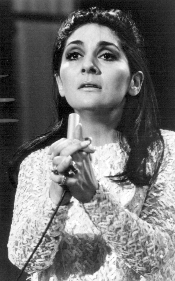 Photo of singer-actress Georgia Brown performing on the CBS television program Showtime.